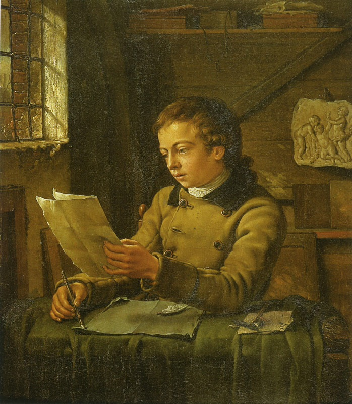 Een schrijver in zijn studio